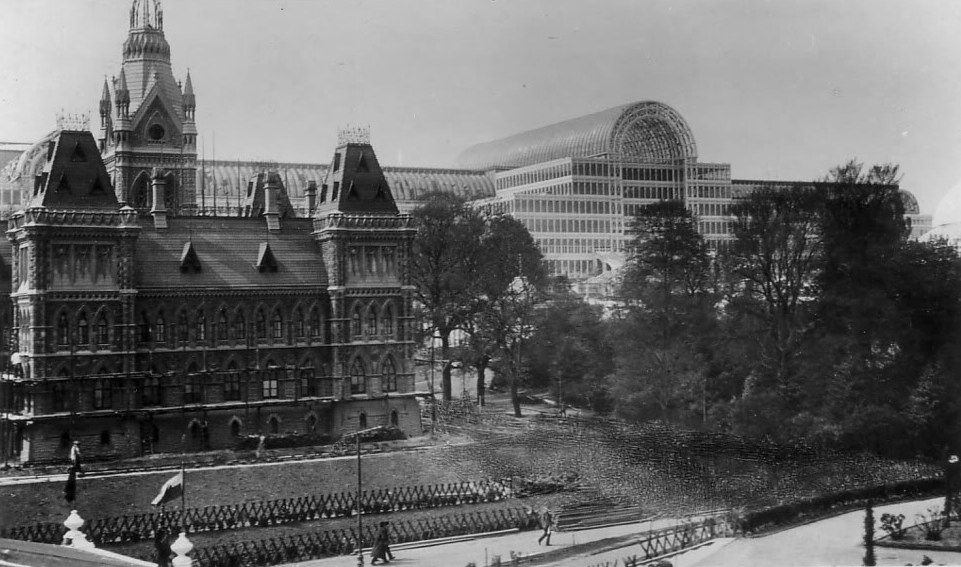 Festival of Empire at the Crystal Palace in South London. 1911 A replica of the Canadian parliament building